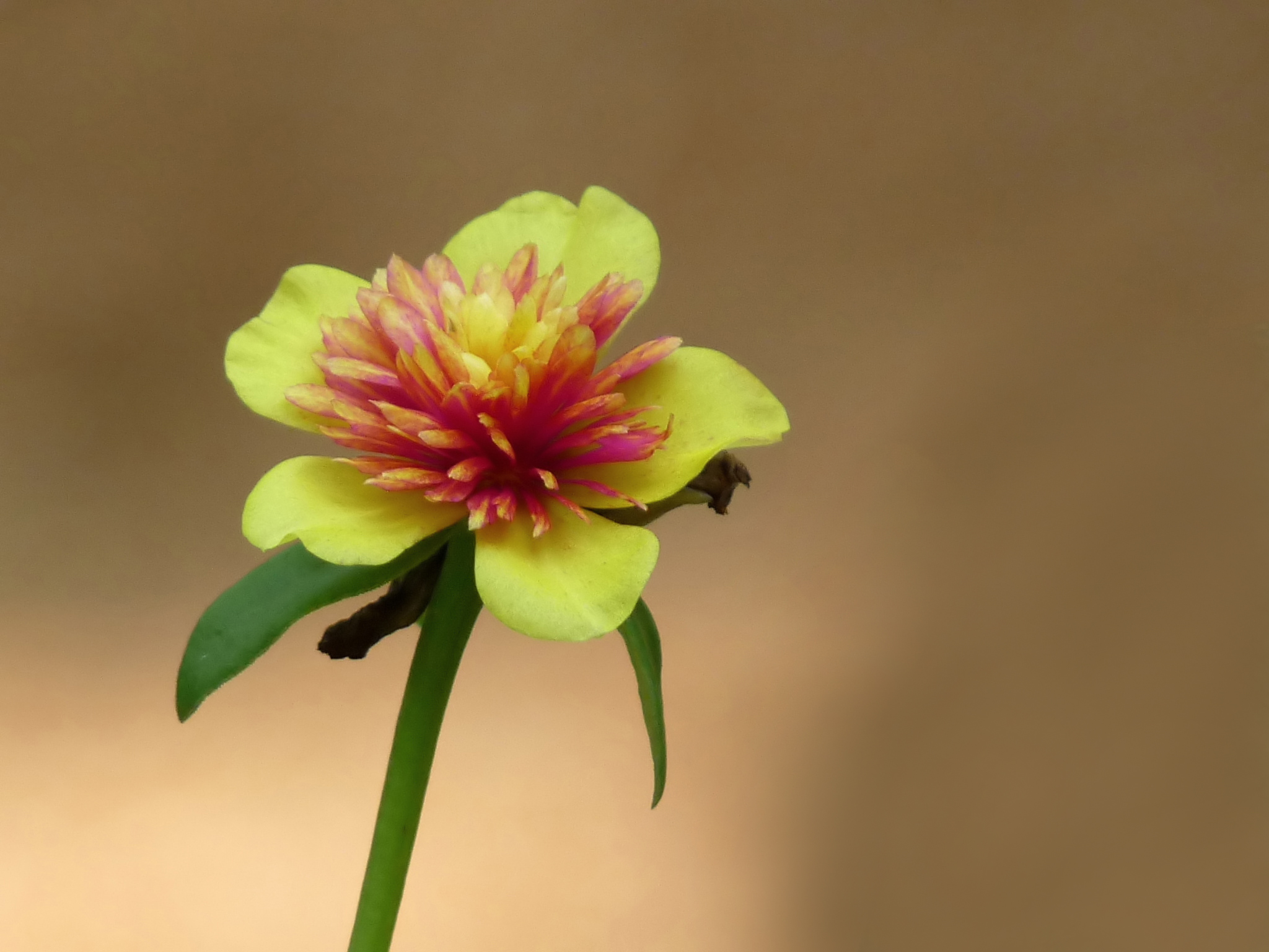 Portulaca, Purslane is the type genus of the flowering plant family Portulacaceae, comprising about 40-100 species found in the tropics and warm temperate regions. They are also known as Moss Roses. Portulaca 'All Aglow' [1] is a specially bred hybrid of Portulaca. The double flowers flaunt a striking combination of yellow and orange-red. Shortly after sun up, 'All Aglow' opens its flowers. The blooms are profuse and intense all sun hours. Near dawn and all night, the flowers close. Taken at Kadavoor, Kerala, India. ↑